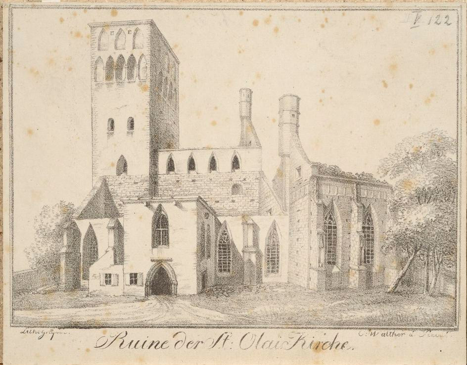 Ruins of St Olaf's Church in Tallinn